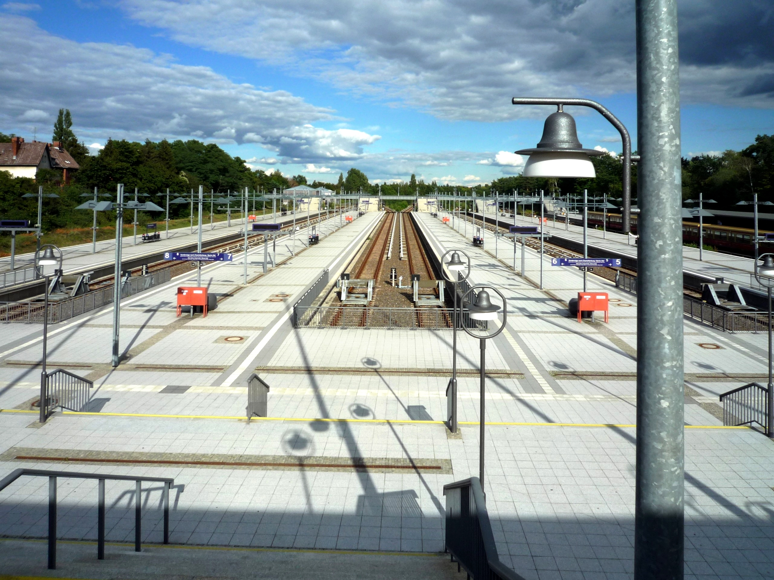 S-Bahnhof (metropolitan railway-station) Olympiastadion in Berlin-Charlottenburg (Germany). Platforms.